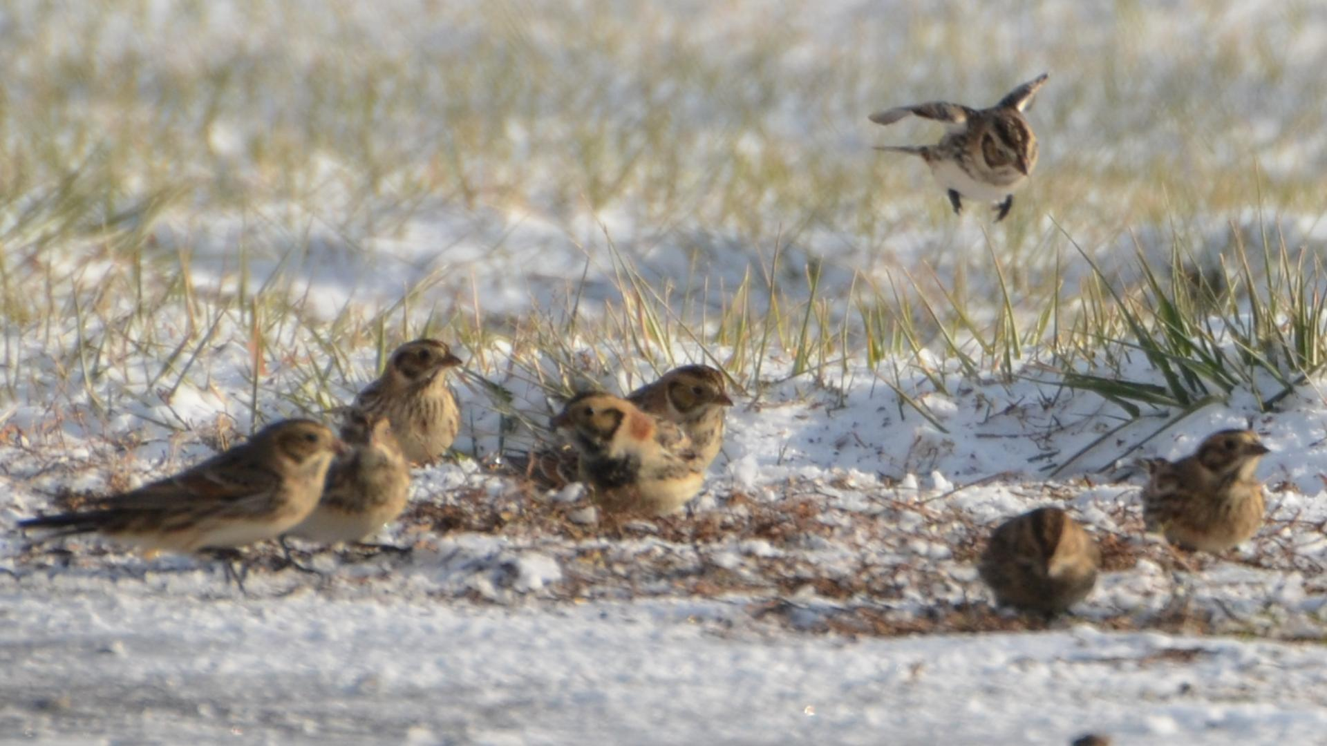 Riverlands Migratory Bird Sanctuary in Alton MO on 12/29/12